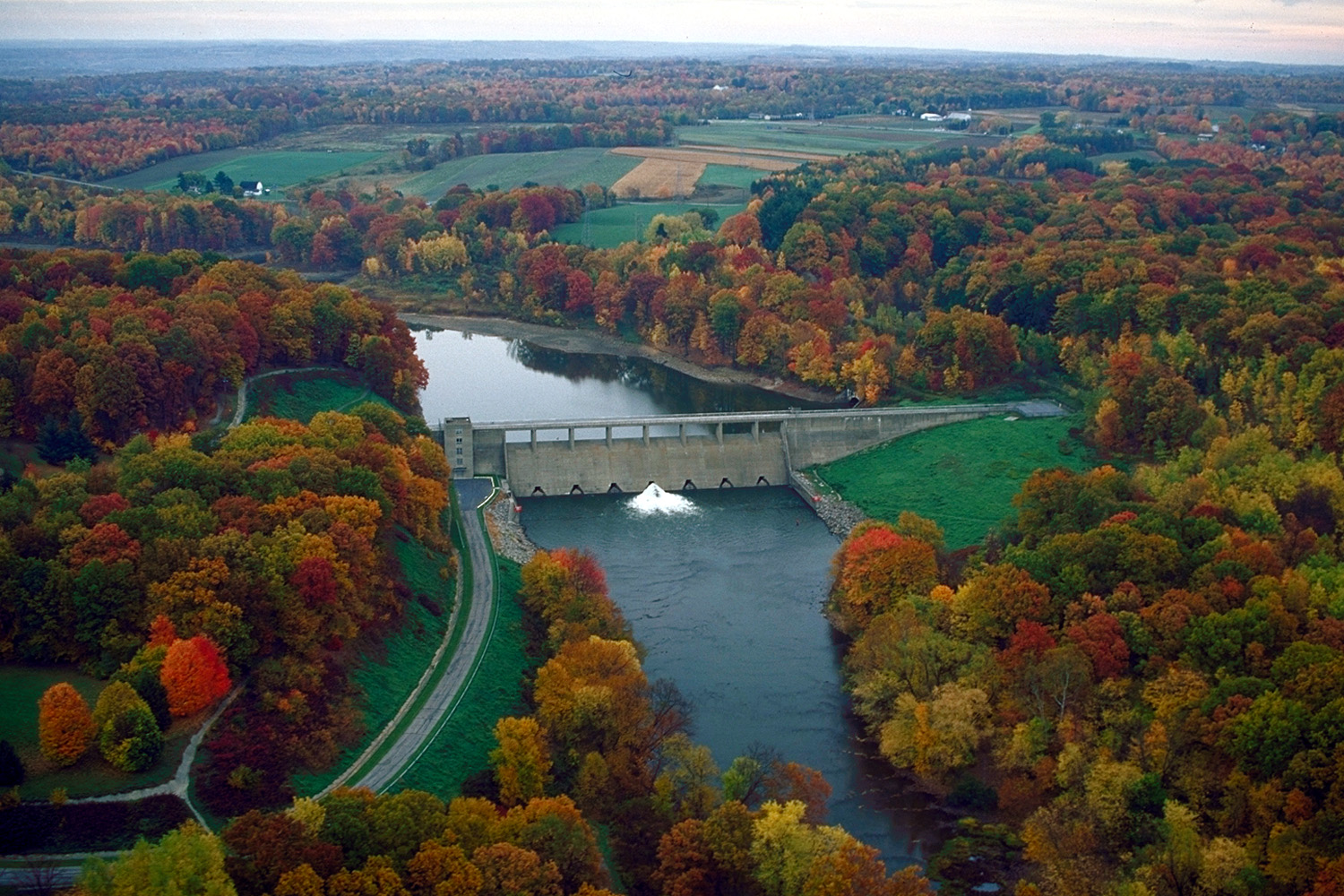 Shenango River Lake on the Shenango River near Hermitage, Mercer County, Pennsylvania, USA. The dam was constructed in 1965 by the U.S. Army Corps of Engineers for flood control on the Shenango and Mahoning Rivers